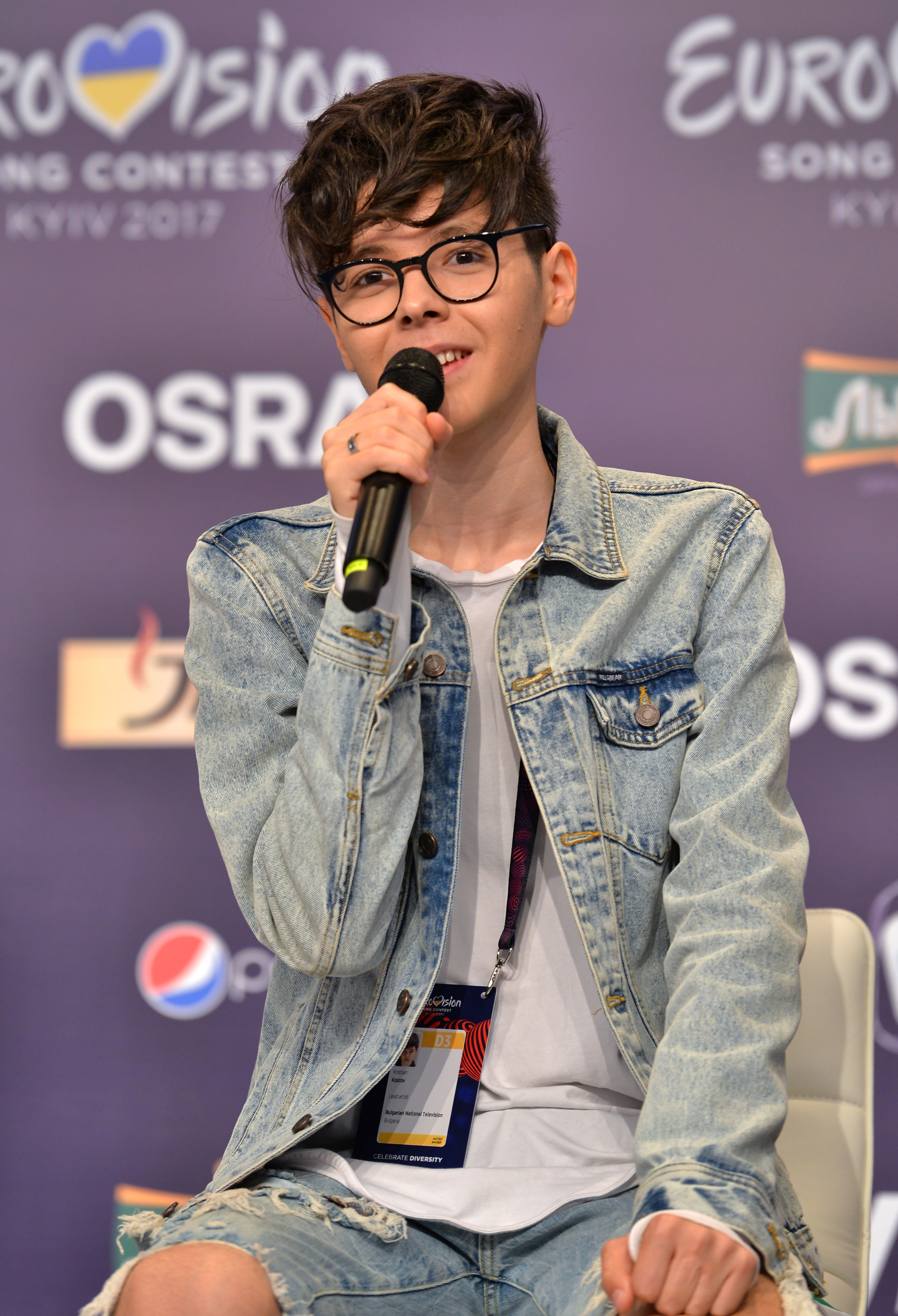 Kristian Kostov